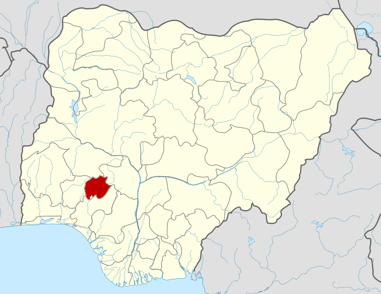 Map locator of Nigeria.